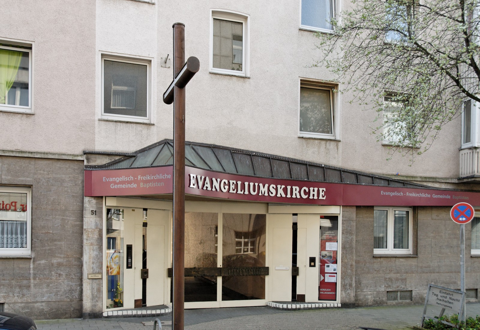 Baptist Parish in Düsseldorf-Friedrichstadt, Germany